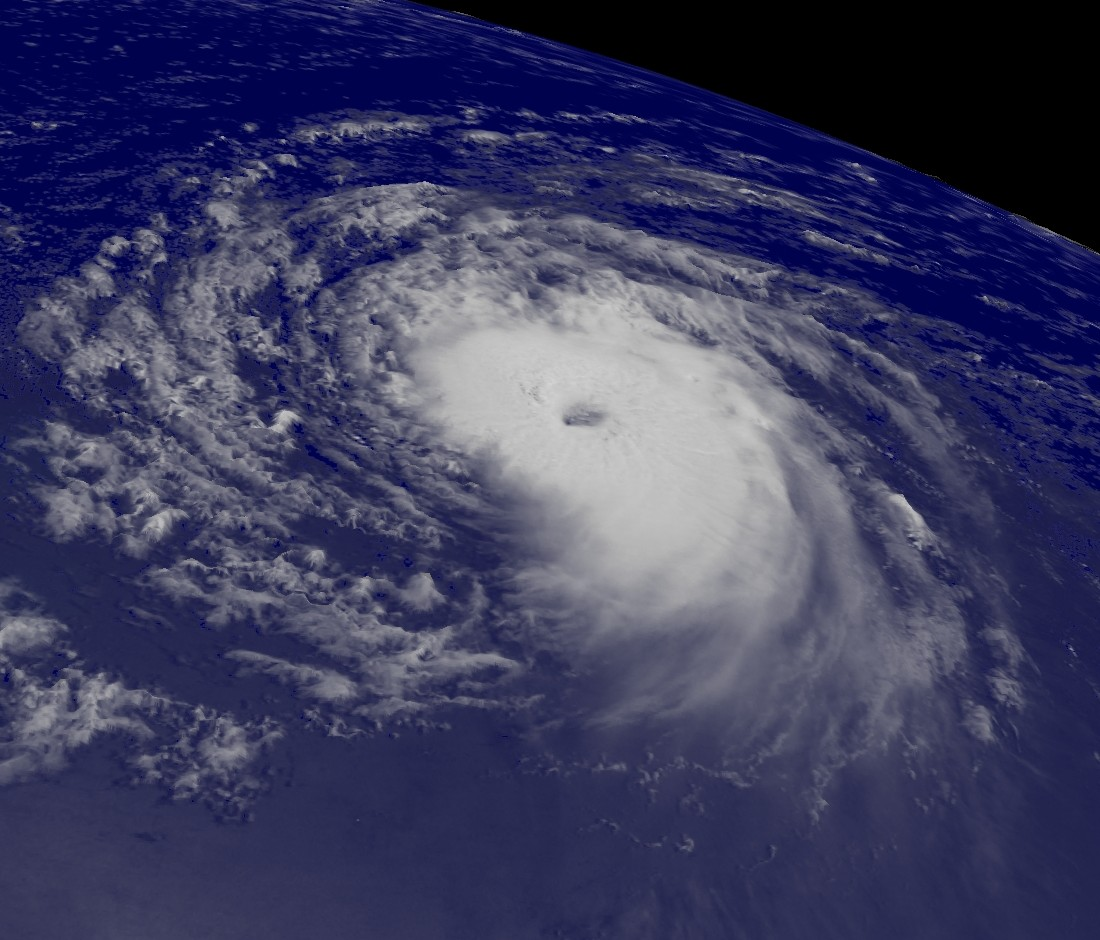 Hurricane Danielle on August 16, 2004 at 1145 UTC had winds near 105 MPH, with higher gusts. From GOES-12 1 km visible imagery. Centerpoint Latitude: 17:38:55N Longitude: 36:41:00W.